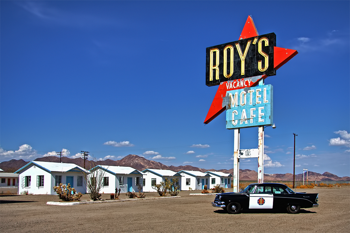 Roy's Cafe & Motel